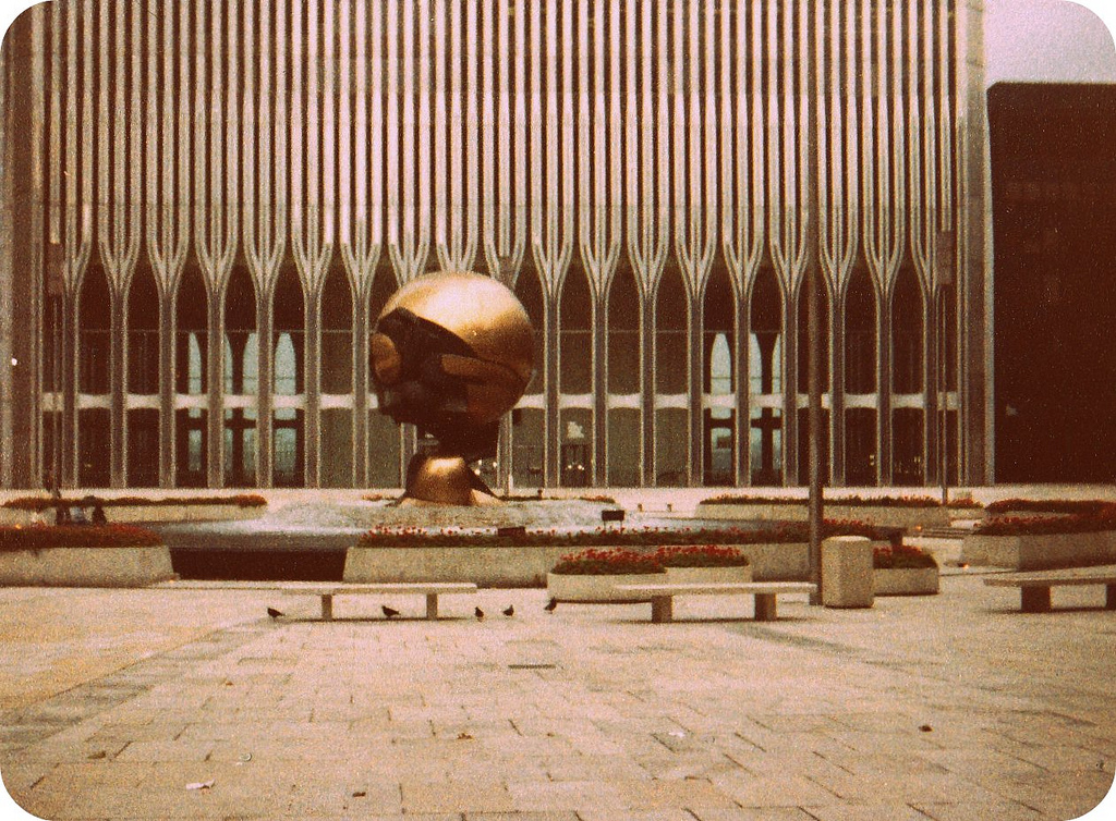 WTC Sphere by Fritz Koenig. 1979.